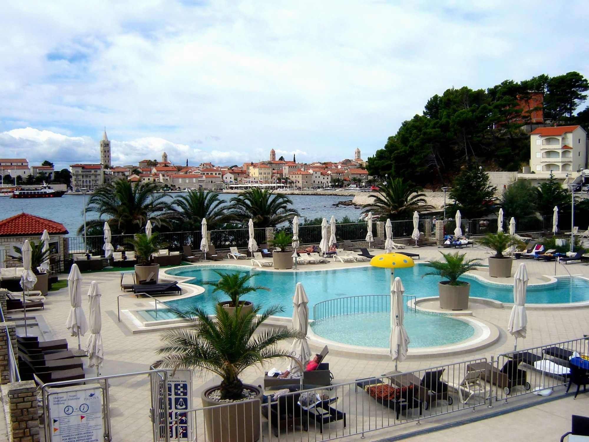 Hotel Padova, Banjol - View to old town Rab